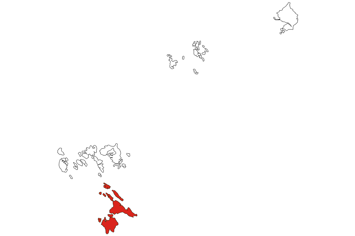 Locator of Lingga Regency within Riau Islands Province